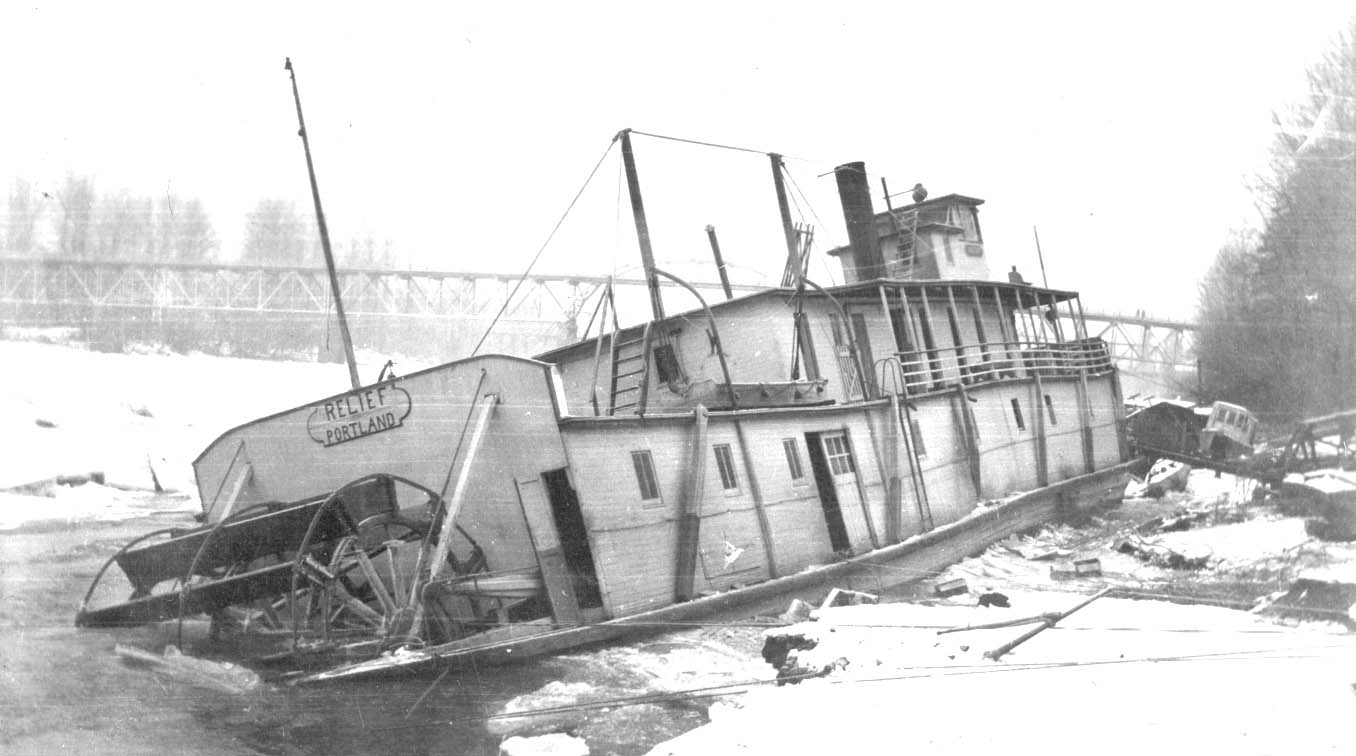 Sternwheeler Relief, crushed in ice at Salem, Oregon, December 24, 1924.